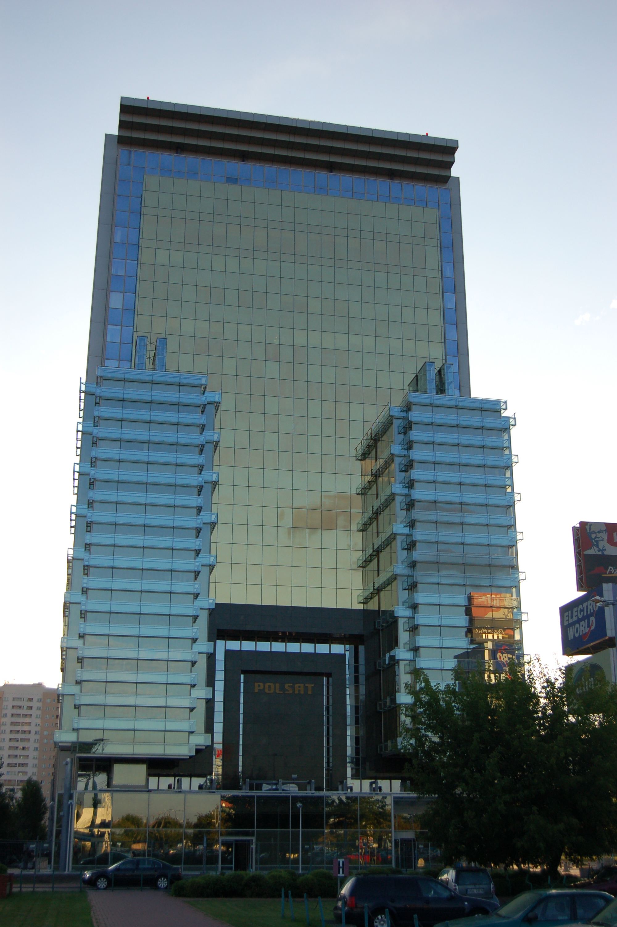 Polsat building in Warsaw, Poland, view from Promenada's parking lot